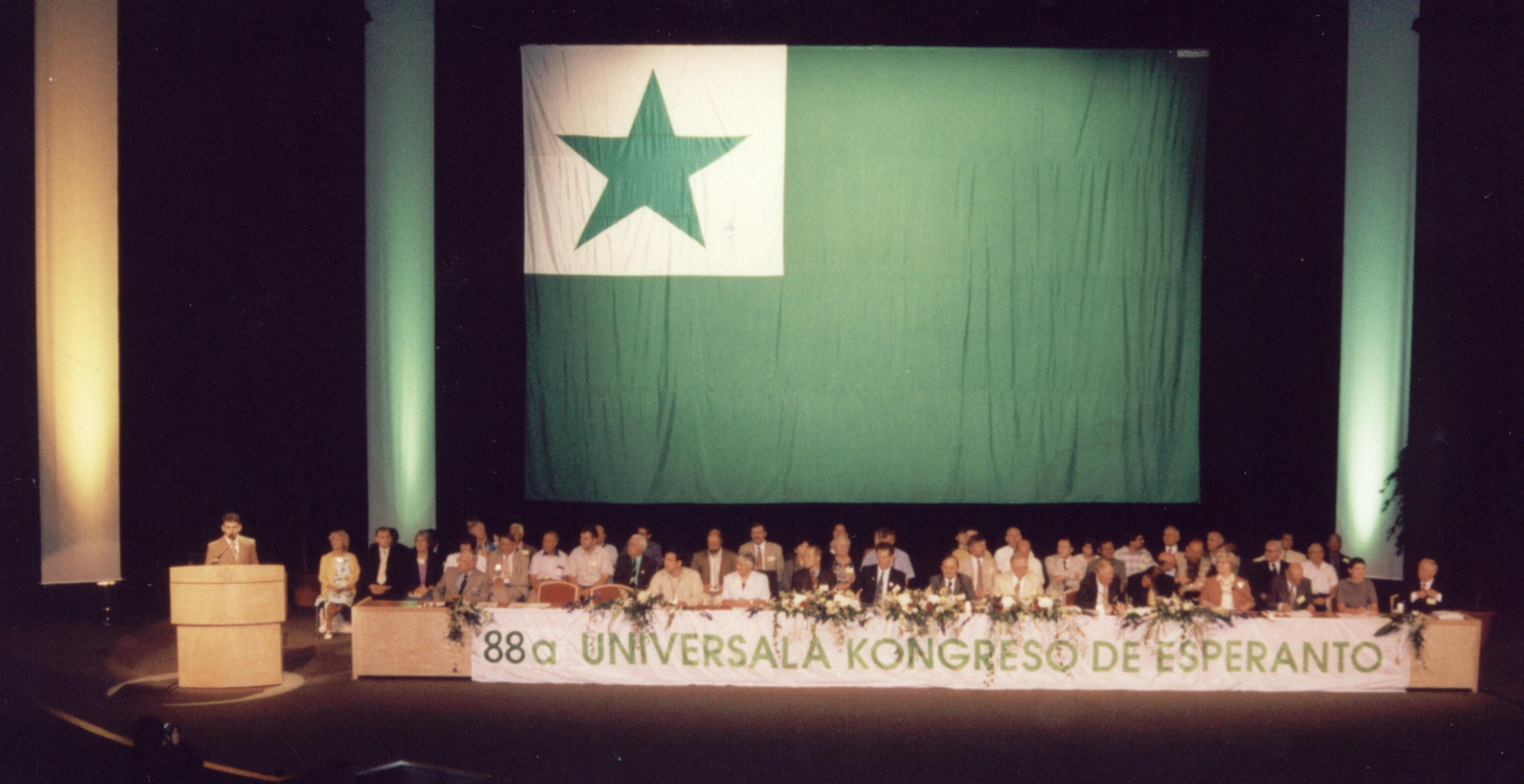 Inauguration of the World Esperanto Congress, Göteborg (Sweden), 2003